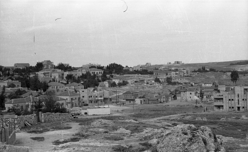 Sheikh Jarrah, 1939